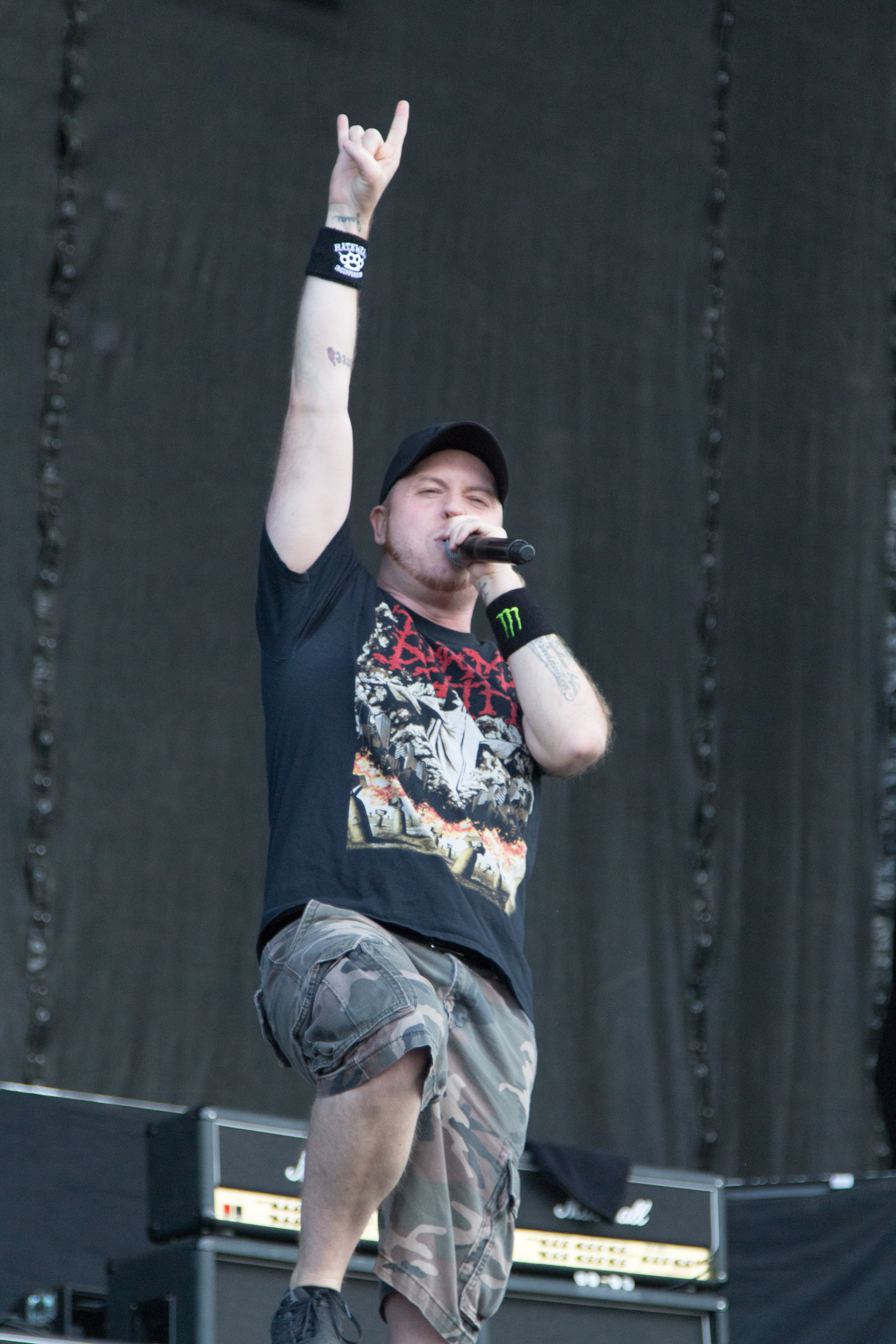 Jamey Jasta from Hatebreed at Nova Rock 2014